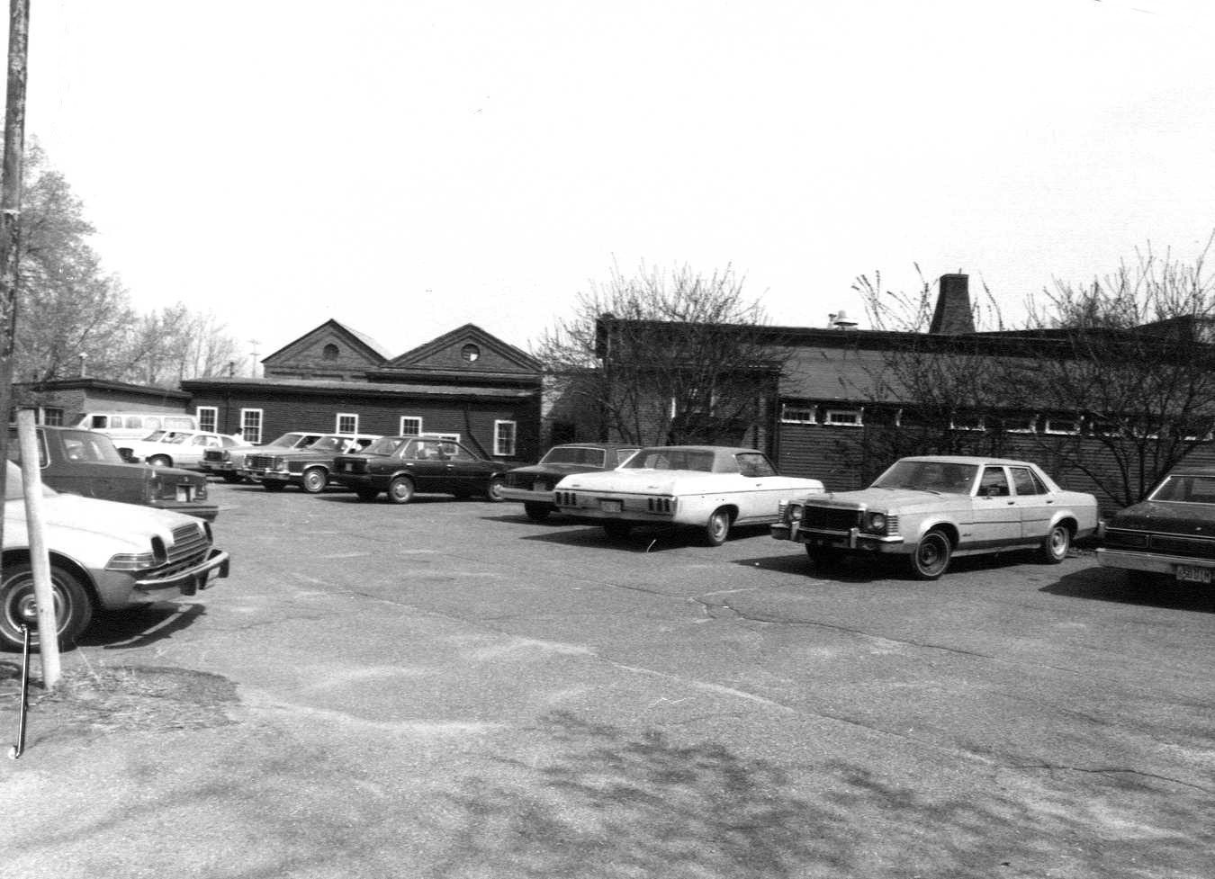 Waltham Gas Light Company, Waltham, Massachusetts. Complex has been demolished.